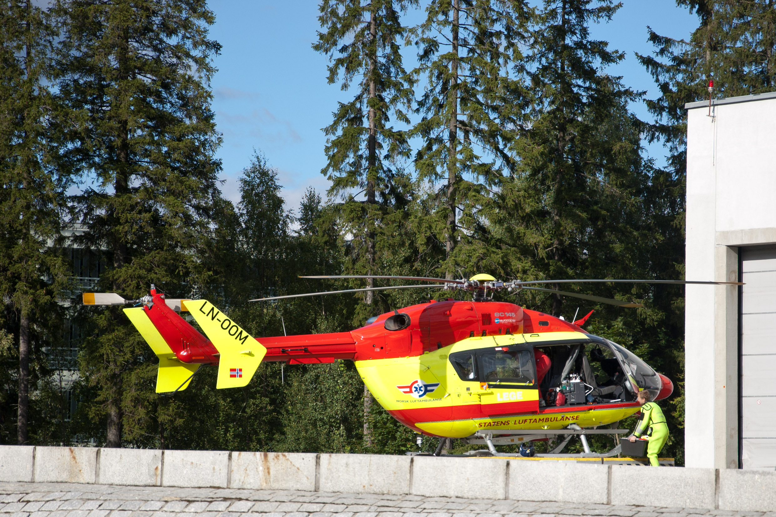 Norsk Luftambulanse, Eurocopter EC 145, LN-OOM, at Lørenskog, Norway